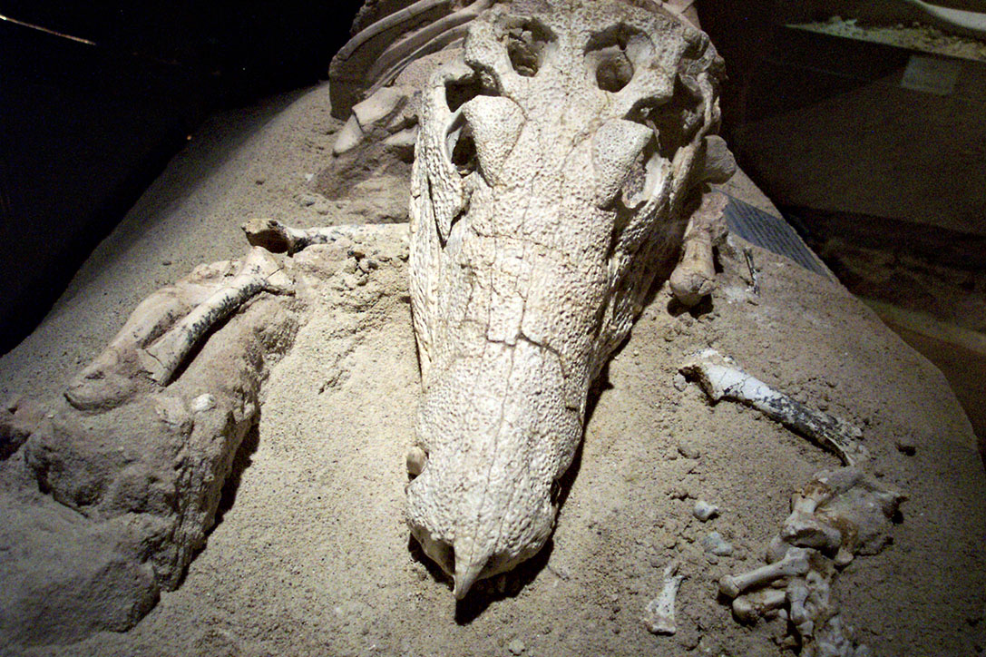 A new Crocodylomorpha from the Bauru Basin (Upper Cretaceous), Dinosaur Museum, Peiropolis, Uberaba, MG, Brazil